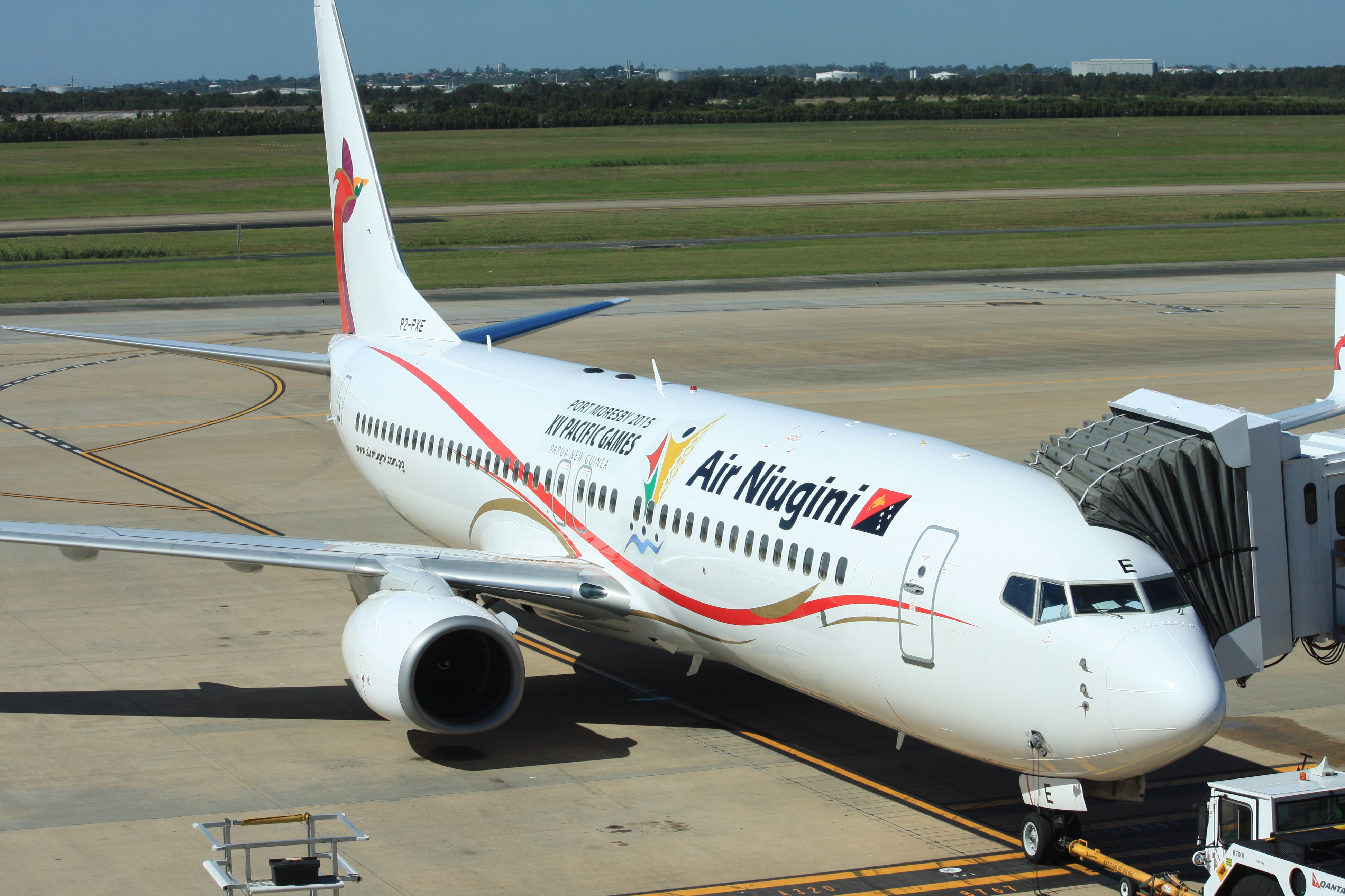 Brisbane (- Eagle Farm) (BNE / YBBN) Australia - Queensland, April 24 2014.